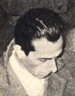 Carlo Inzolia, a protagonist of the Fenaroli Case